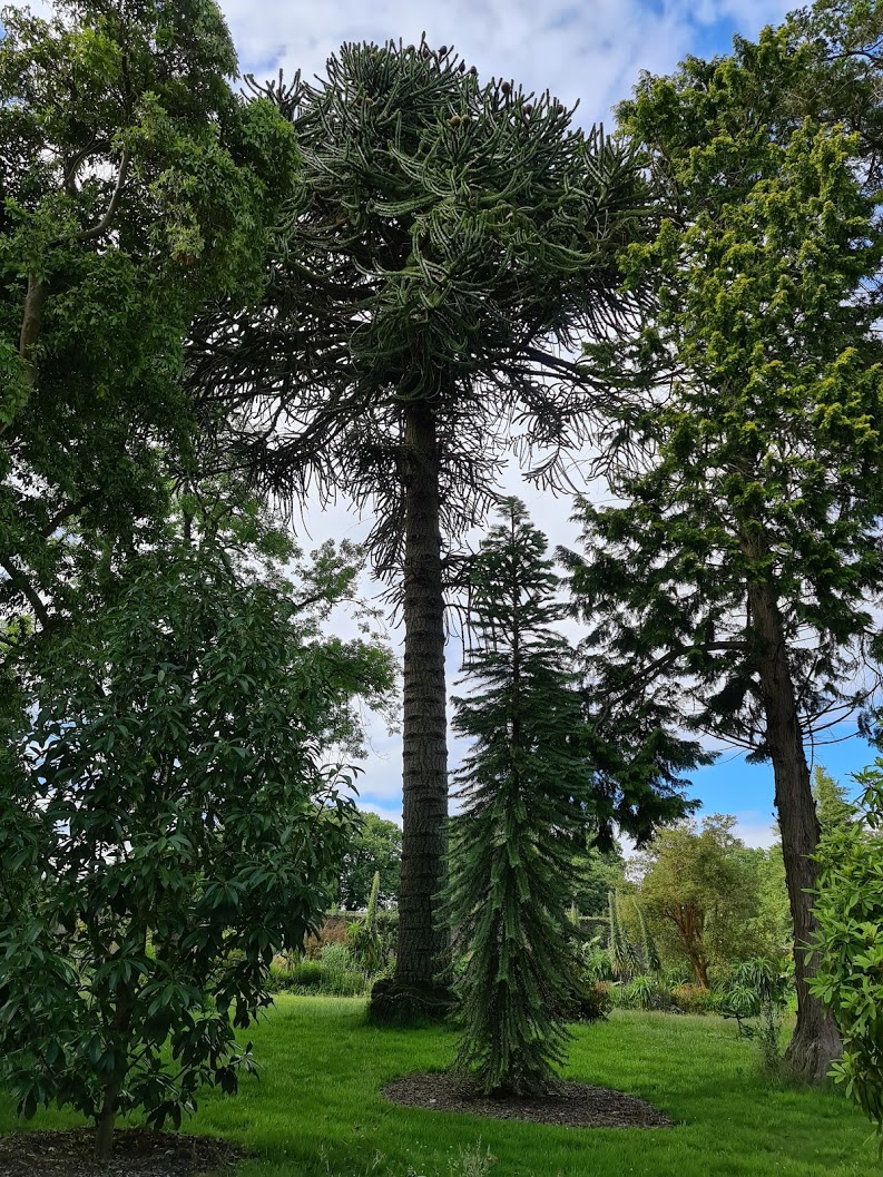 An example of a mature Monkey Puzzle Tree at the National Botanic Garden, Kilmacurragh, Wicklow, Ireland